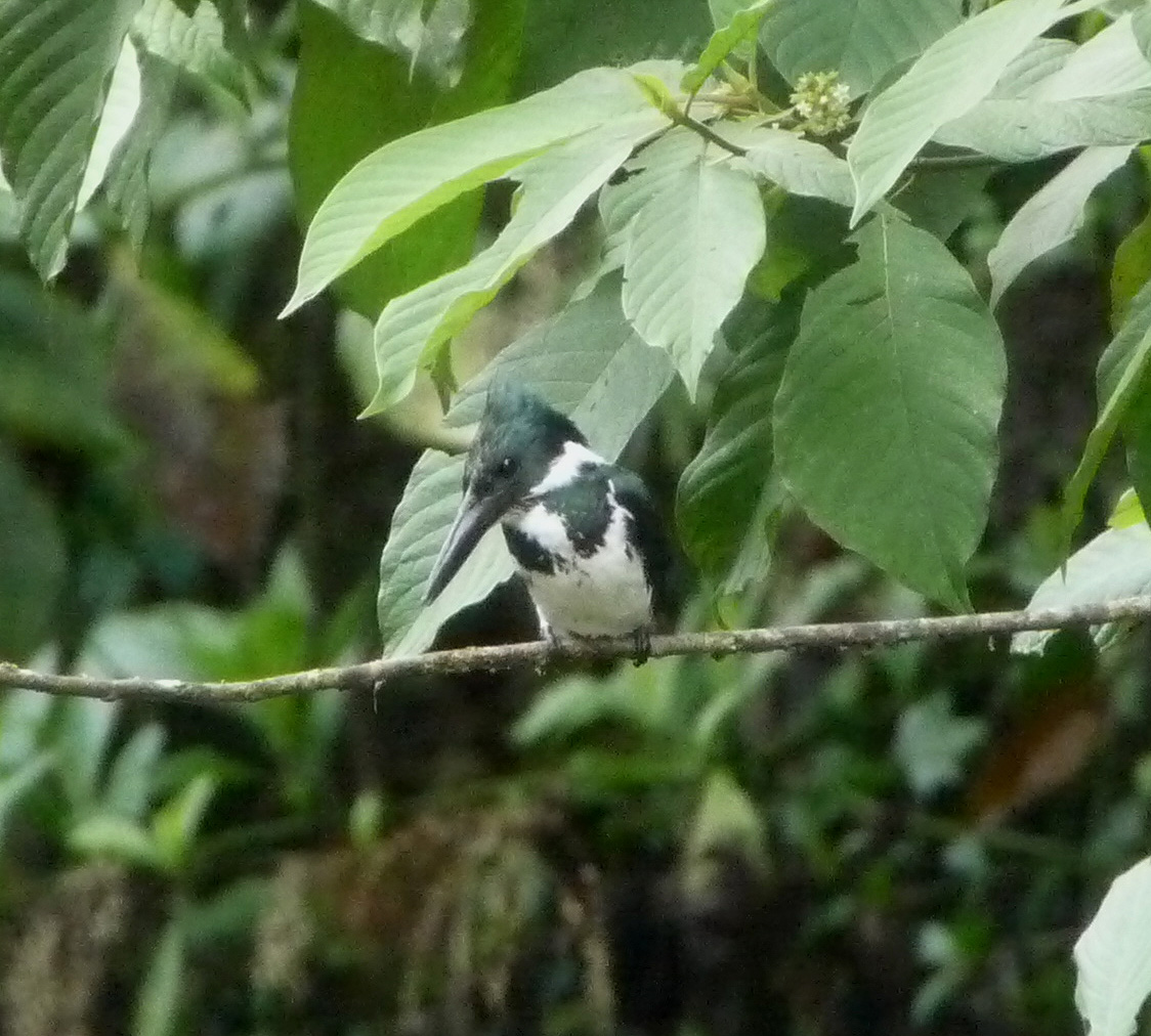 Amazon Kingfisher. Chloroceryle inda. Female.